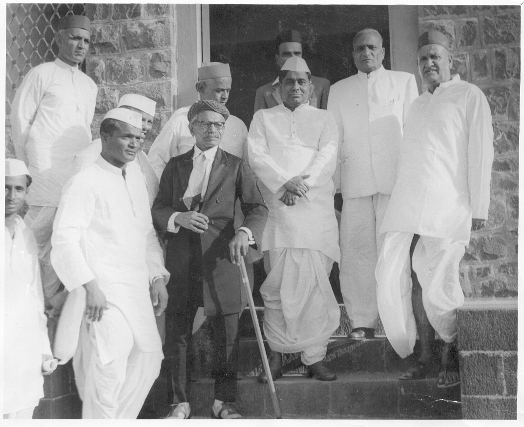 Inugration of Auditorium 2